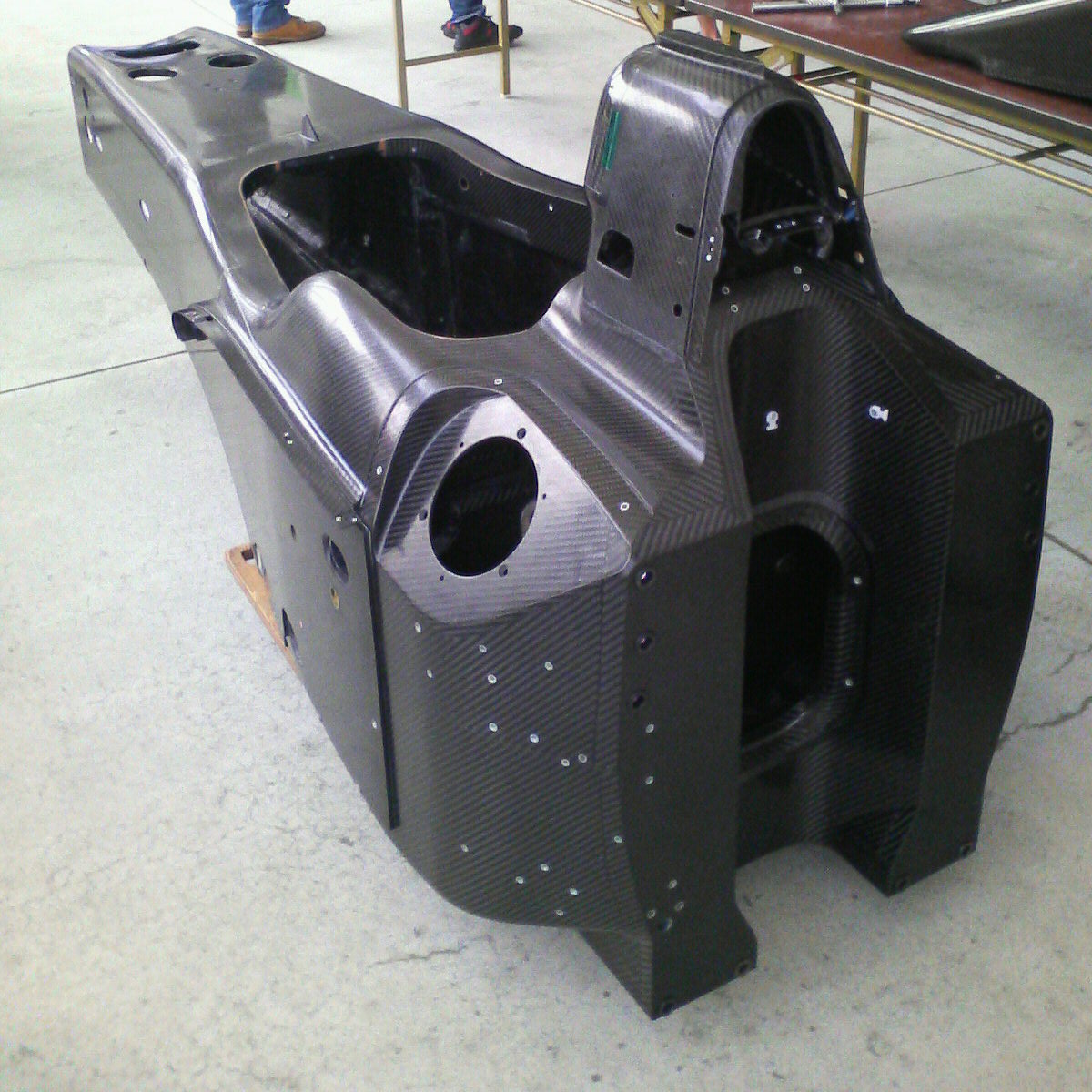 cockpit shell of monocoque of Dallara SF14